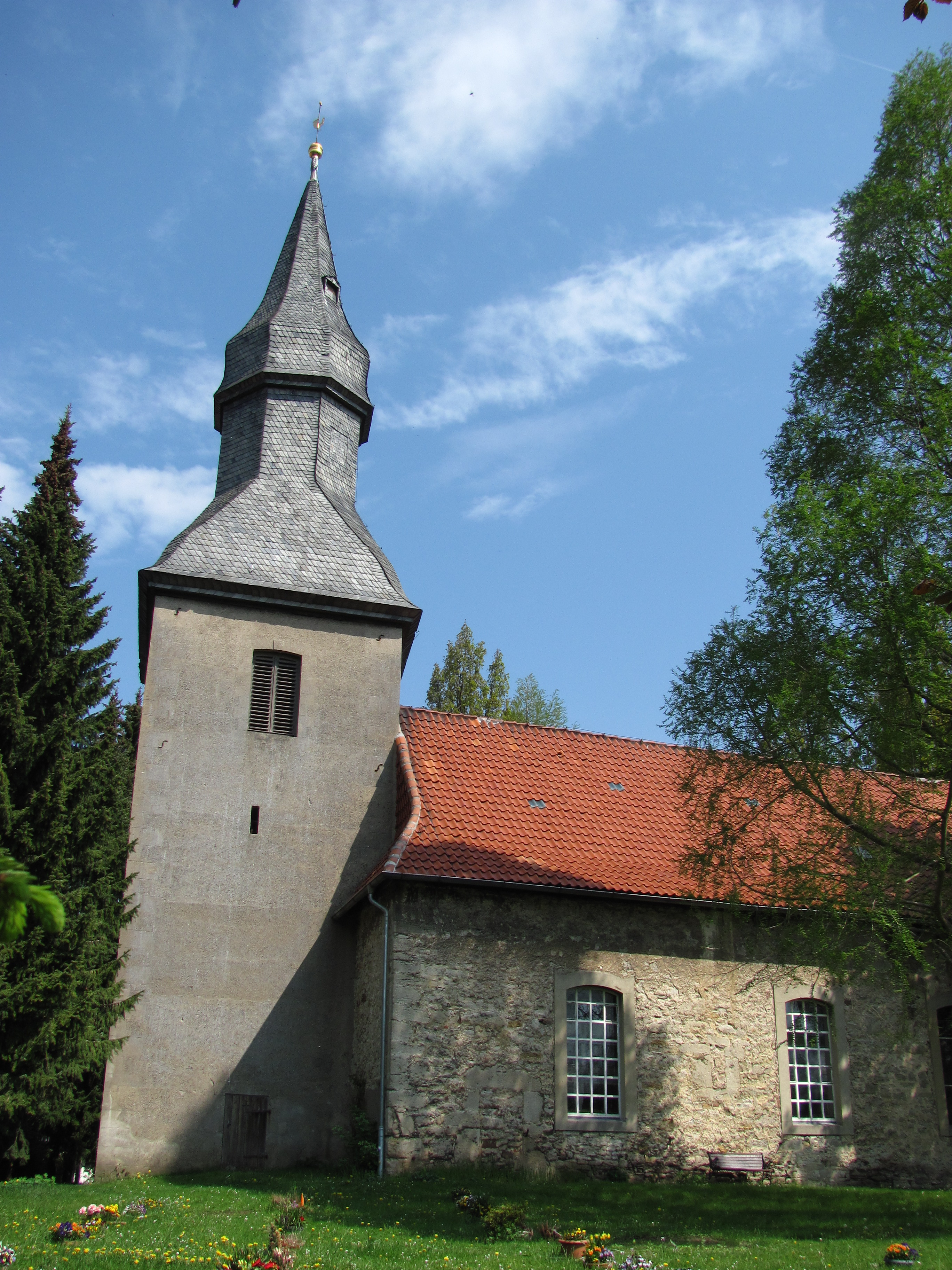 Protestant Church Saint Laurentius, Freden (Leine), Lower Saxony, Germany